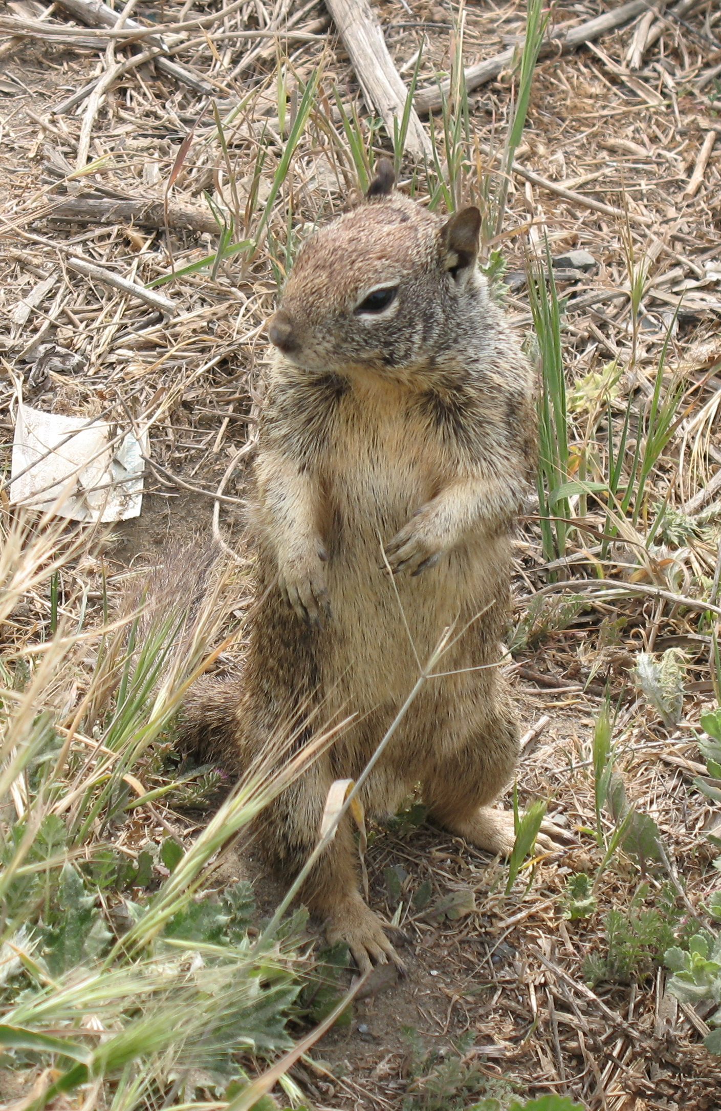 California Ground Squirrel (Spermophilus beecheyi), (San Simeon, CA)